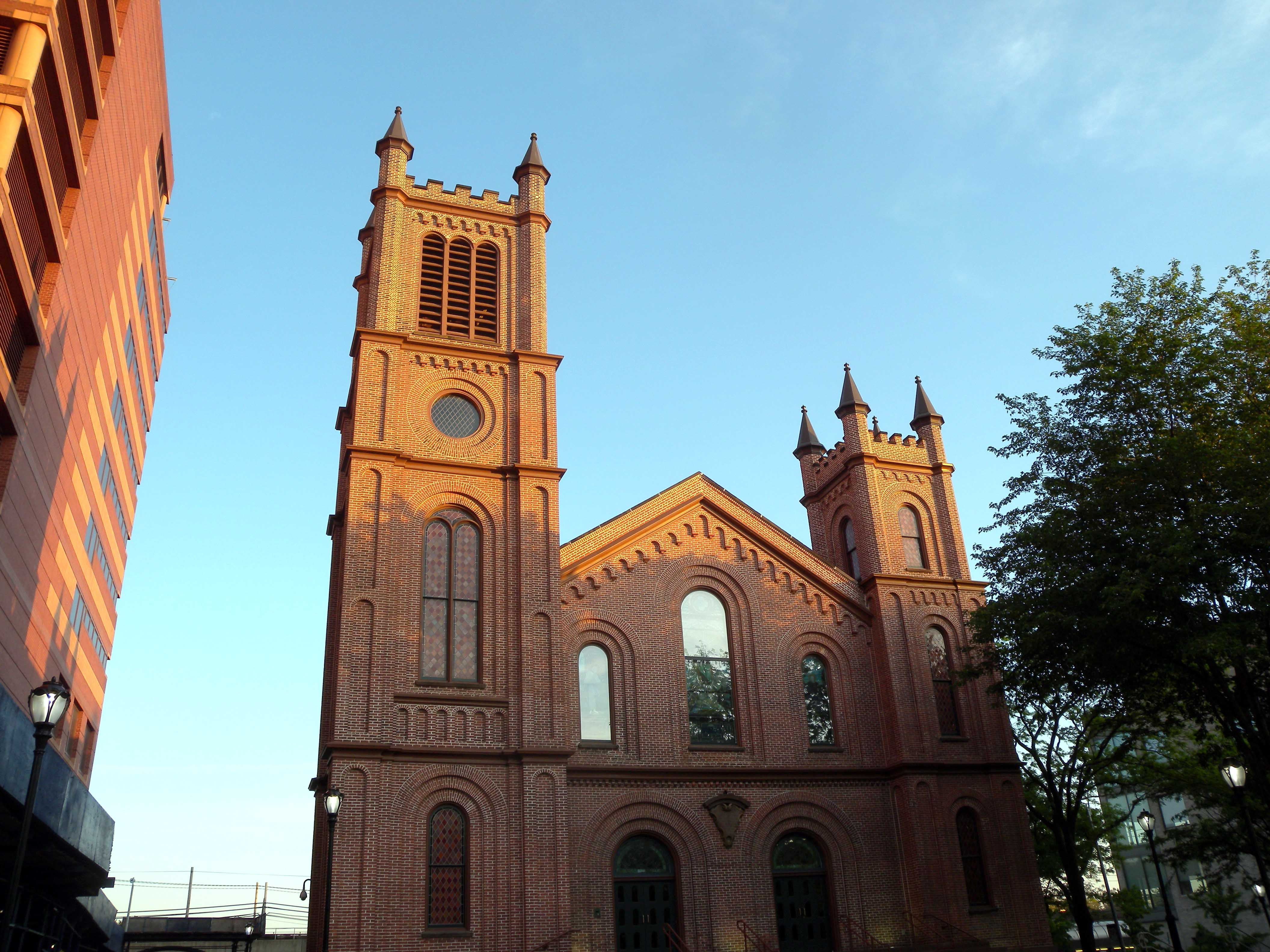 Looking south from Jamaica Avenue at First Reformed Church of Jamaica at dusk of a sunny day. NYCLPC designation 1966.